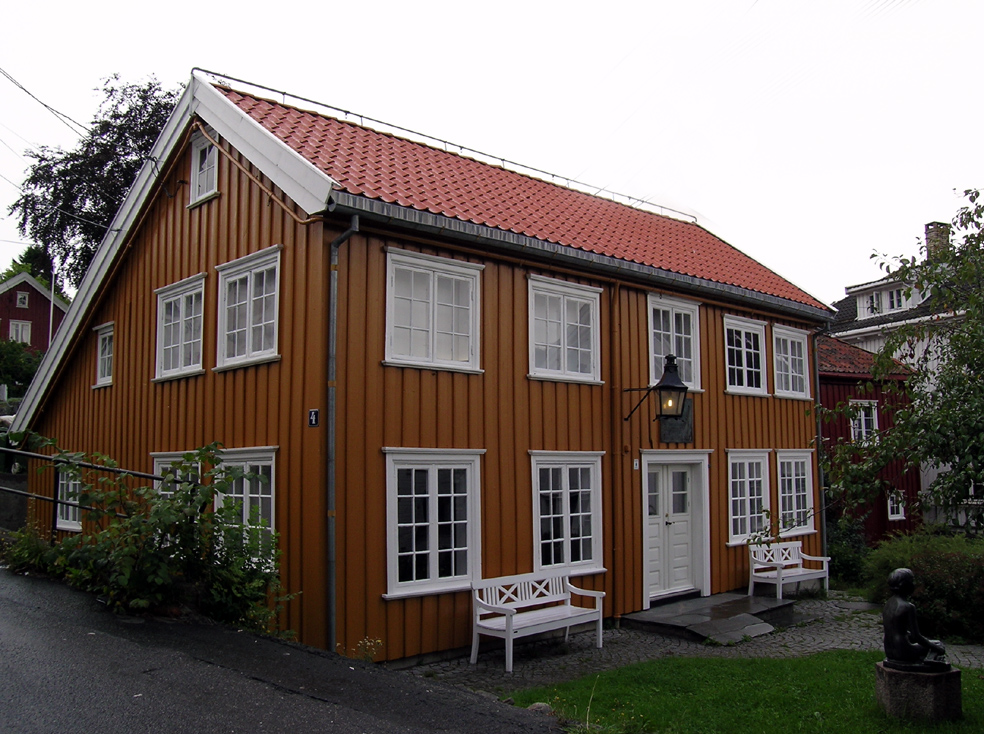 Reimanngården in Grimstad, Norway. Henrik Ibsen worked and lived here as a pharmacist apprentice between 1844 and 1850.